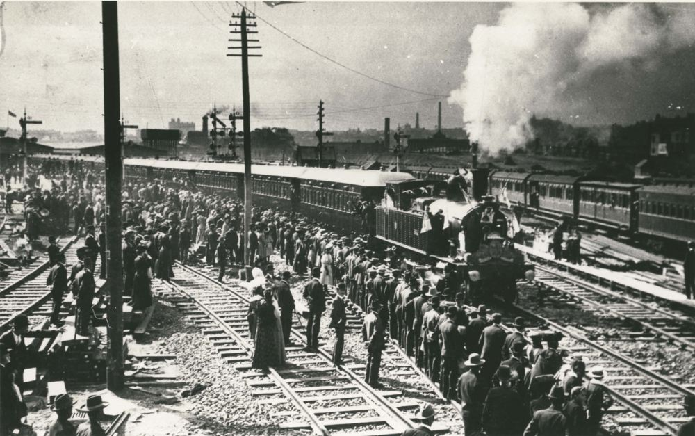 The first train leaving from the new Central Railway Station, Sydney Dated: by 31/12/1906 Digital ID: 17420_a014_a014000269 Rights: We'd love to hear from you if you use our photos. Many other photos in our collection are available to view and browse on our website using Photo Investigator.